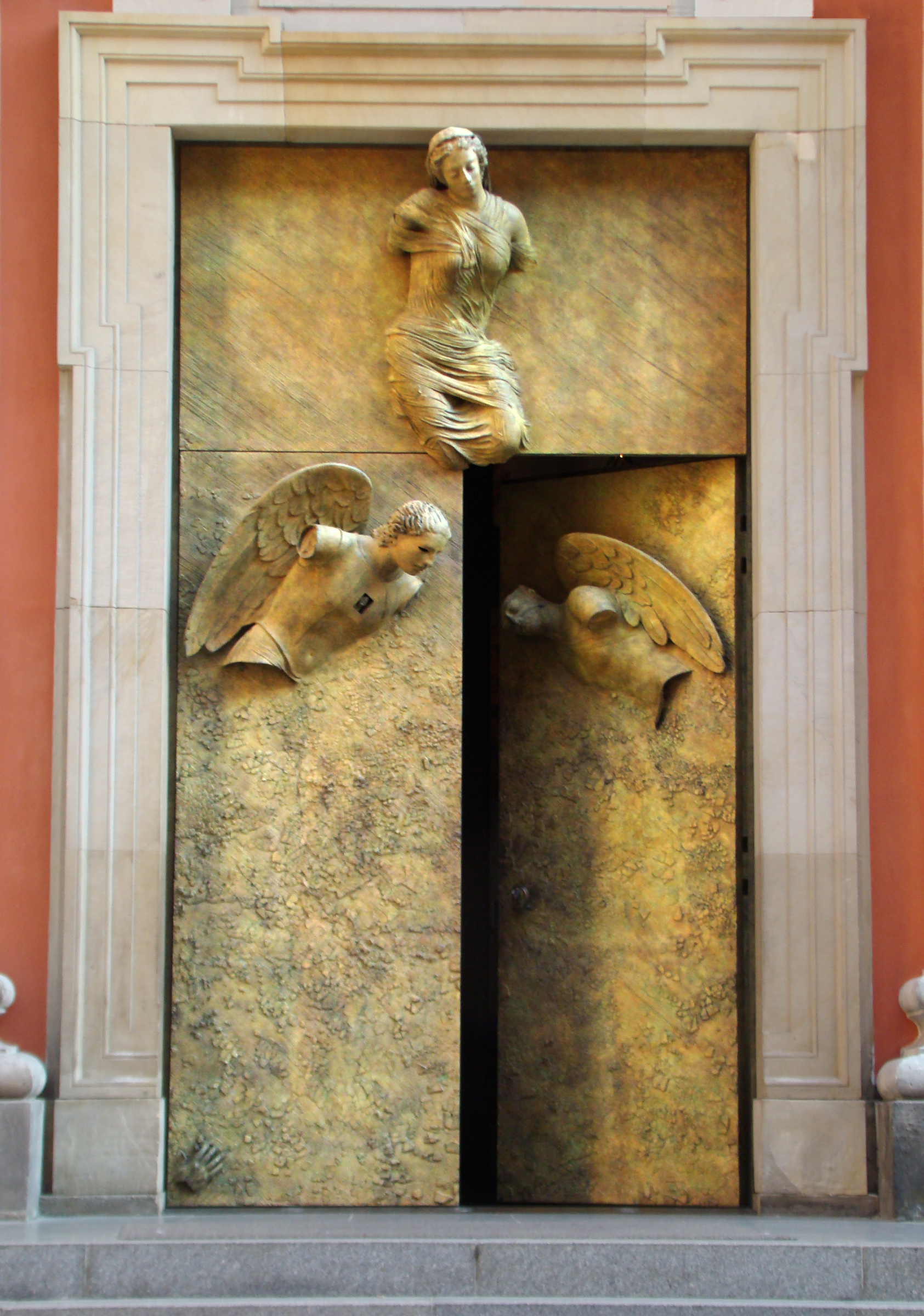 Church door Warsaw by Igor Mitoraj